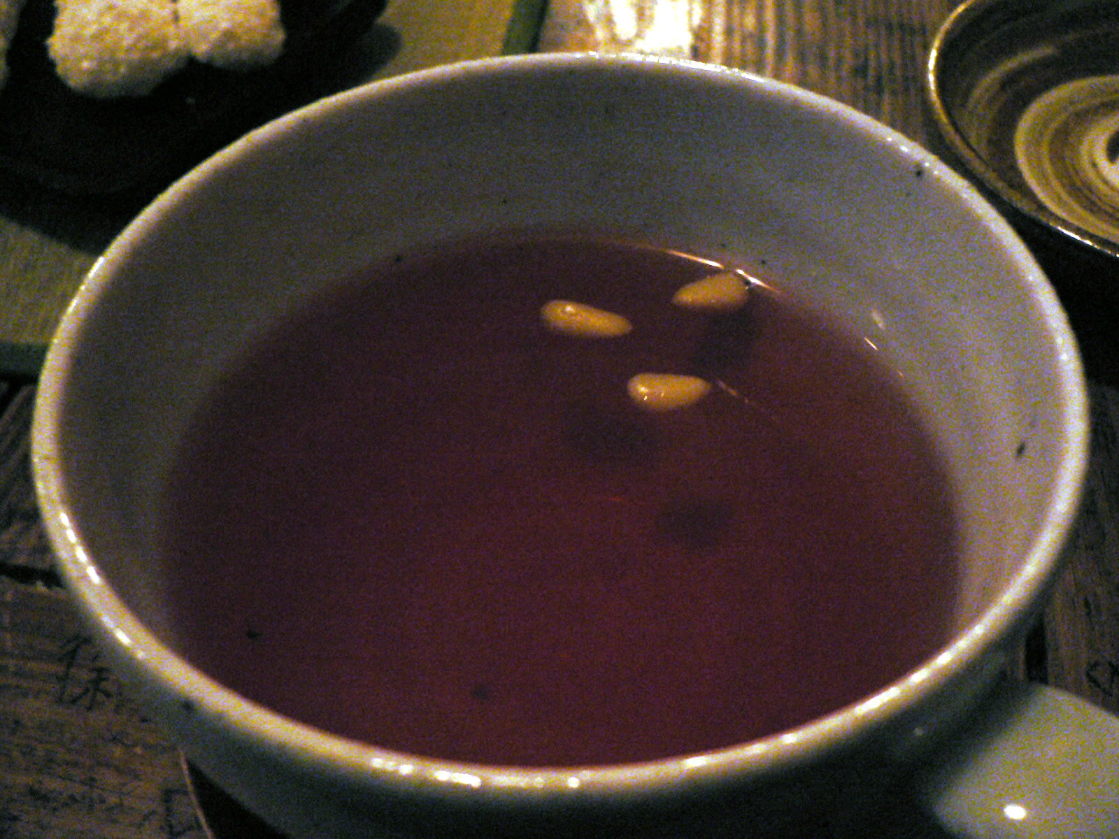 This Korean tea is Sujeonggwa at a traditional tea room in Insadong, Seoul, Korea